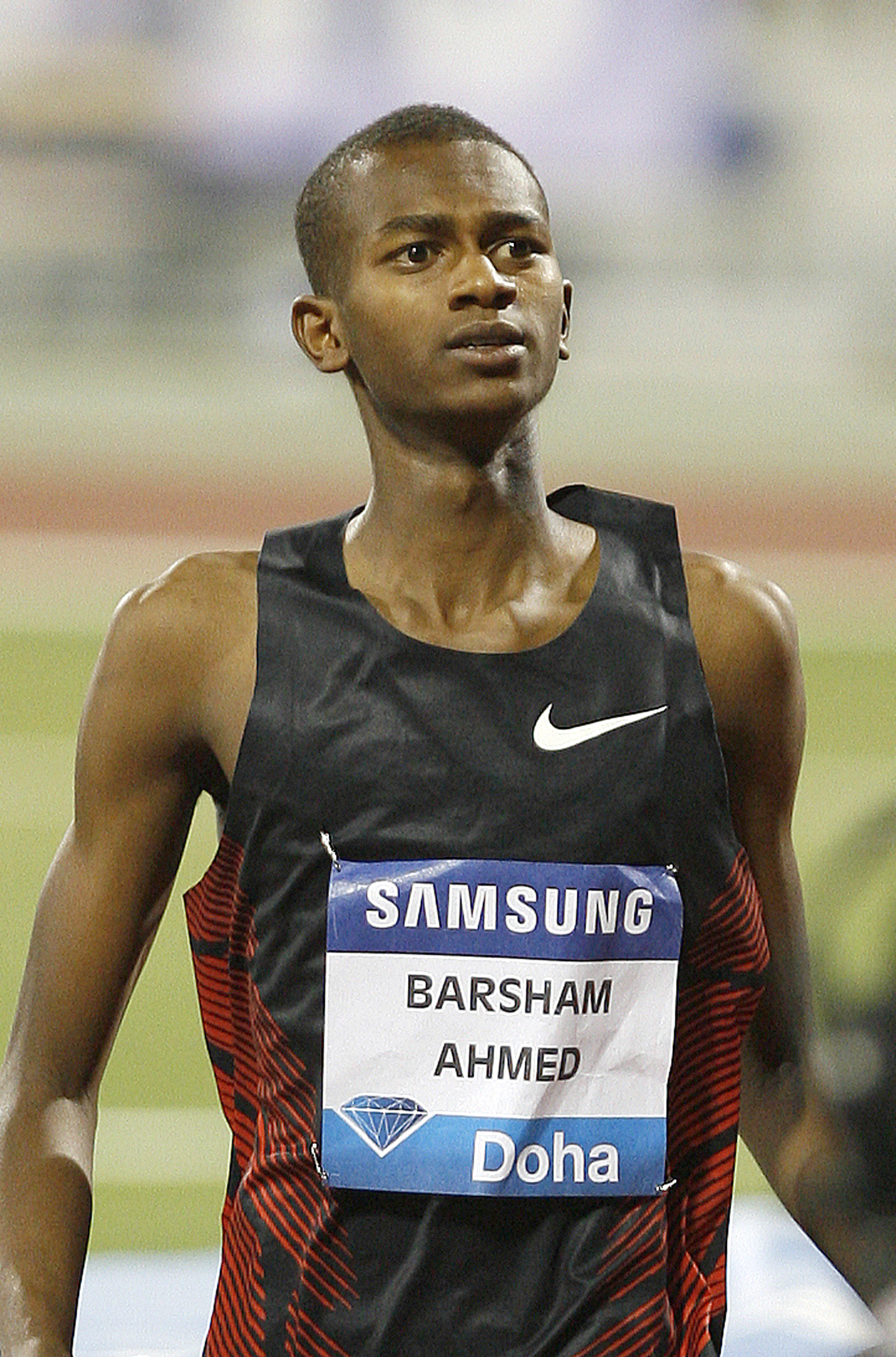 Qatari high jumper Motaz Essa Barsham reacts after completing a jump during the Doha Diamond League on May 6, 2011.